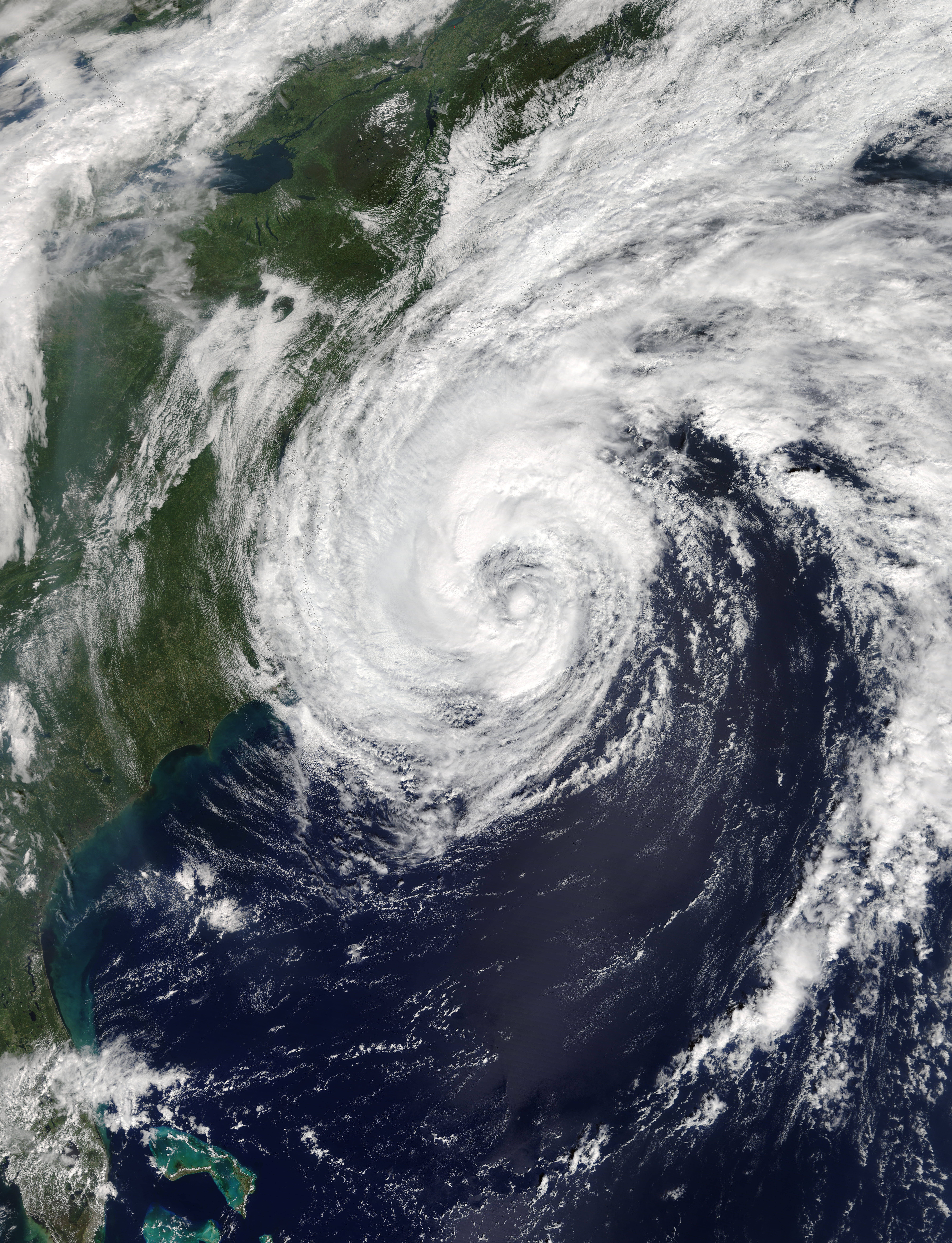 Hurricane Jose (12L) off the East Coast